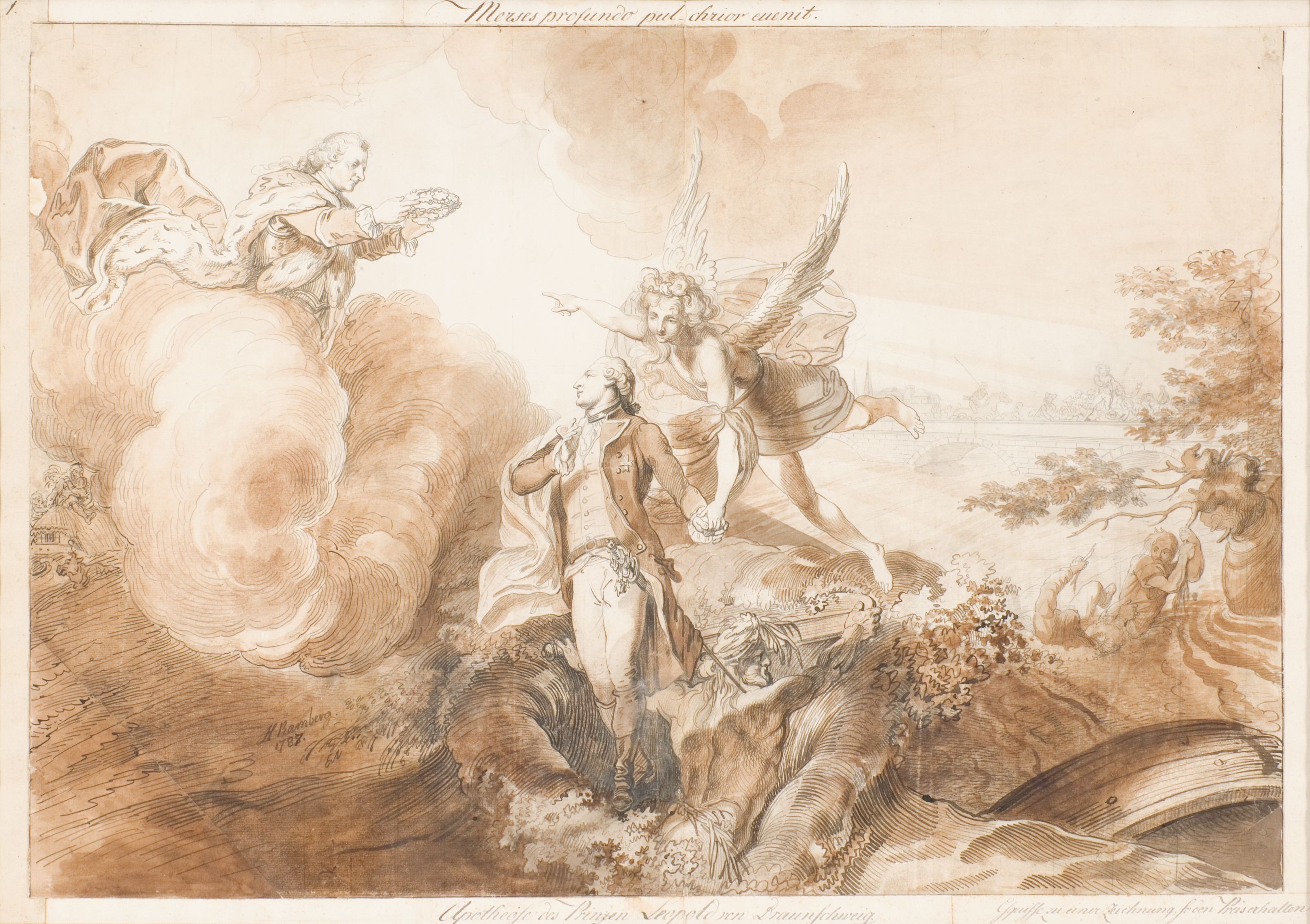 the Transfiguration of the Duke Maximilian Julius Leopold of Brunswick and Luneburg